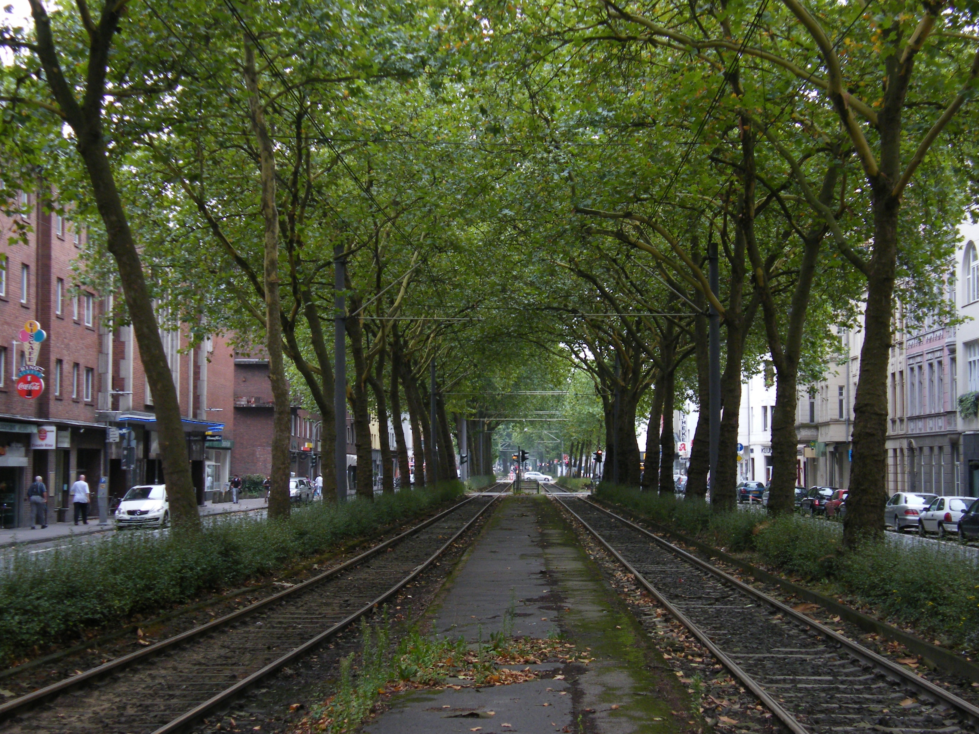 Luxemburger Str. in Cologne, southbound view from about Arnulfstraße junction